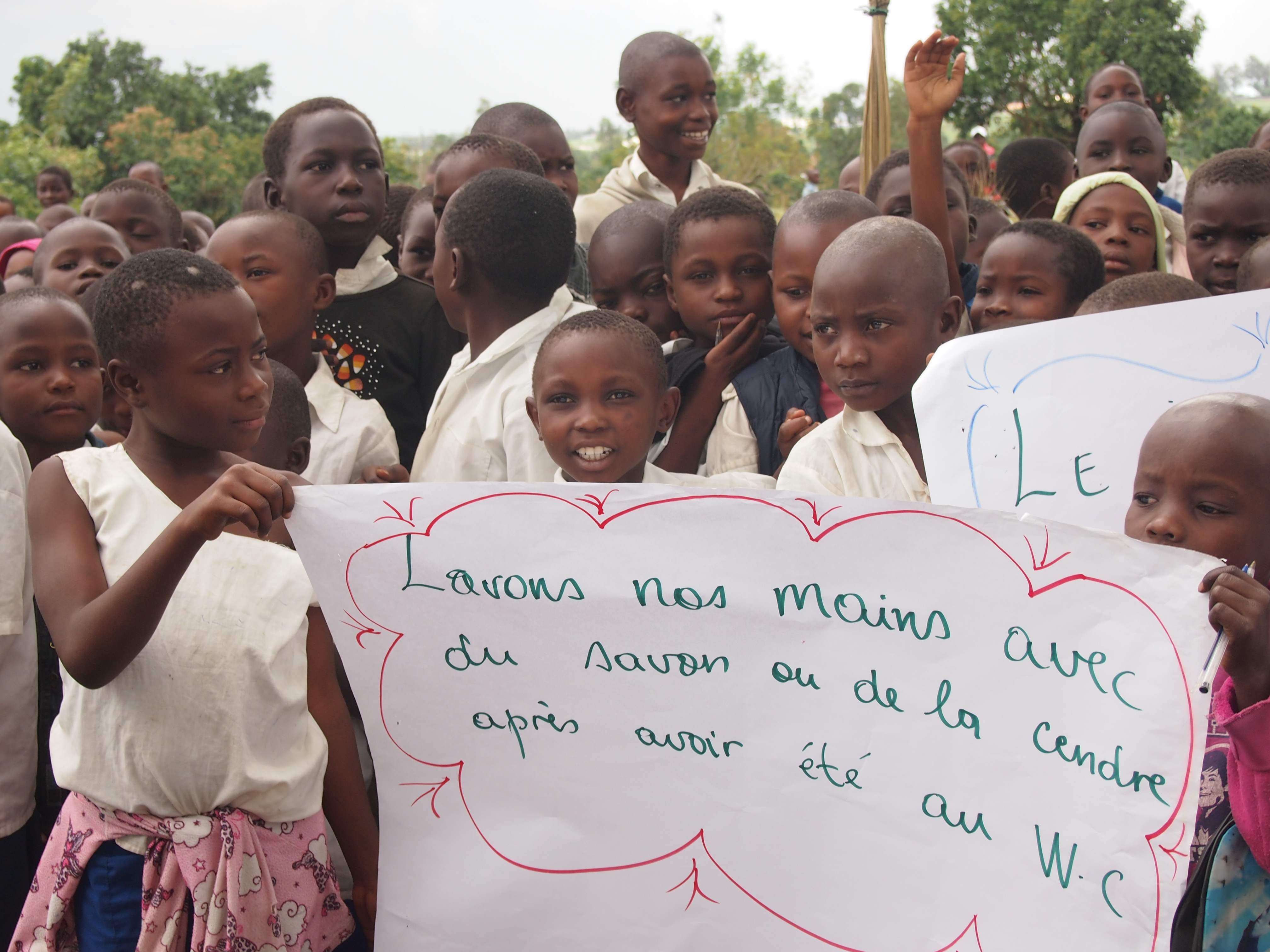 Children at Chem Chem primary school make banners and sing songs to raise awareness of the threat of cholera and how it can be prevented. Photo: Caroline Gluck/Oxfam